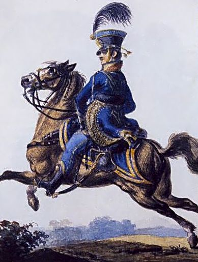 10th Hussars Regiment of Polish Army of Duchy of Warsaw